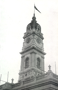 Photograph of the Victorian Football Association premiership flag flying over the Prahran Town Hall to celebrate the Prahran Football Club winning the 1951 VFA Grand Final.